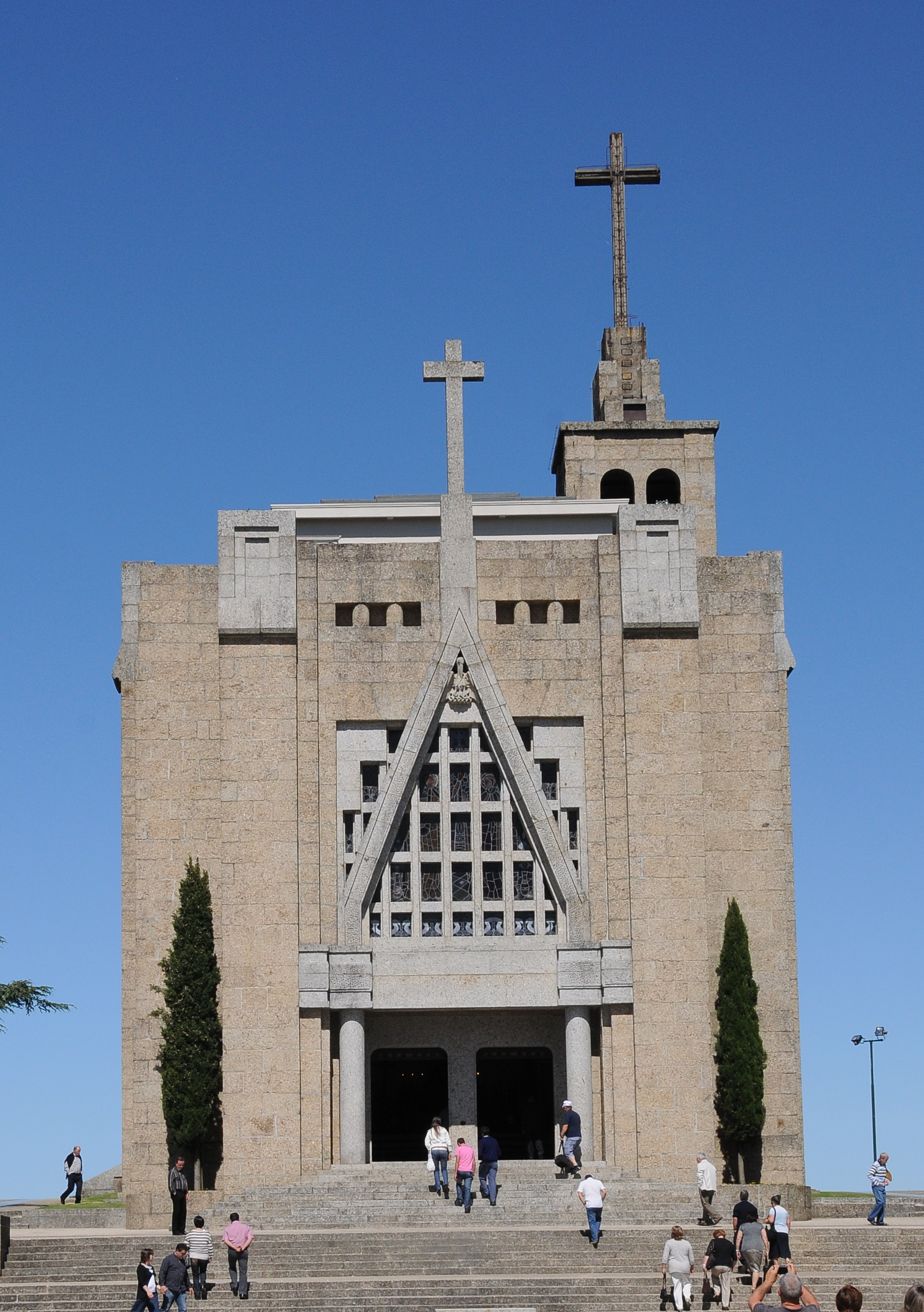 Penha Sanctuary in Guimarães, Portugal.